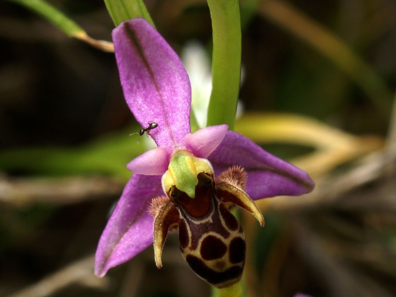 Ophrys crassicornis